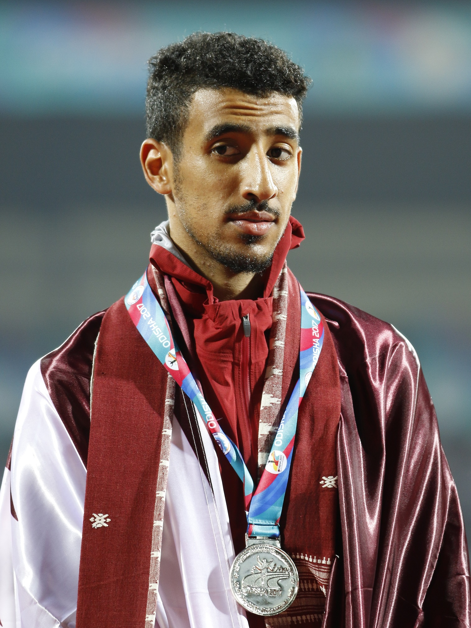 Athletes during 22nd Asian Athletics Championships in Bhubaneswar.